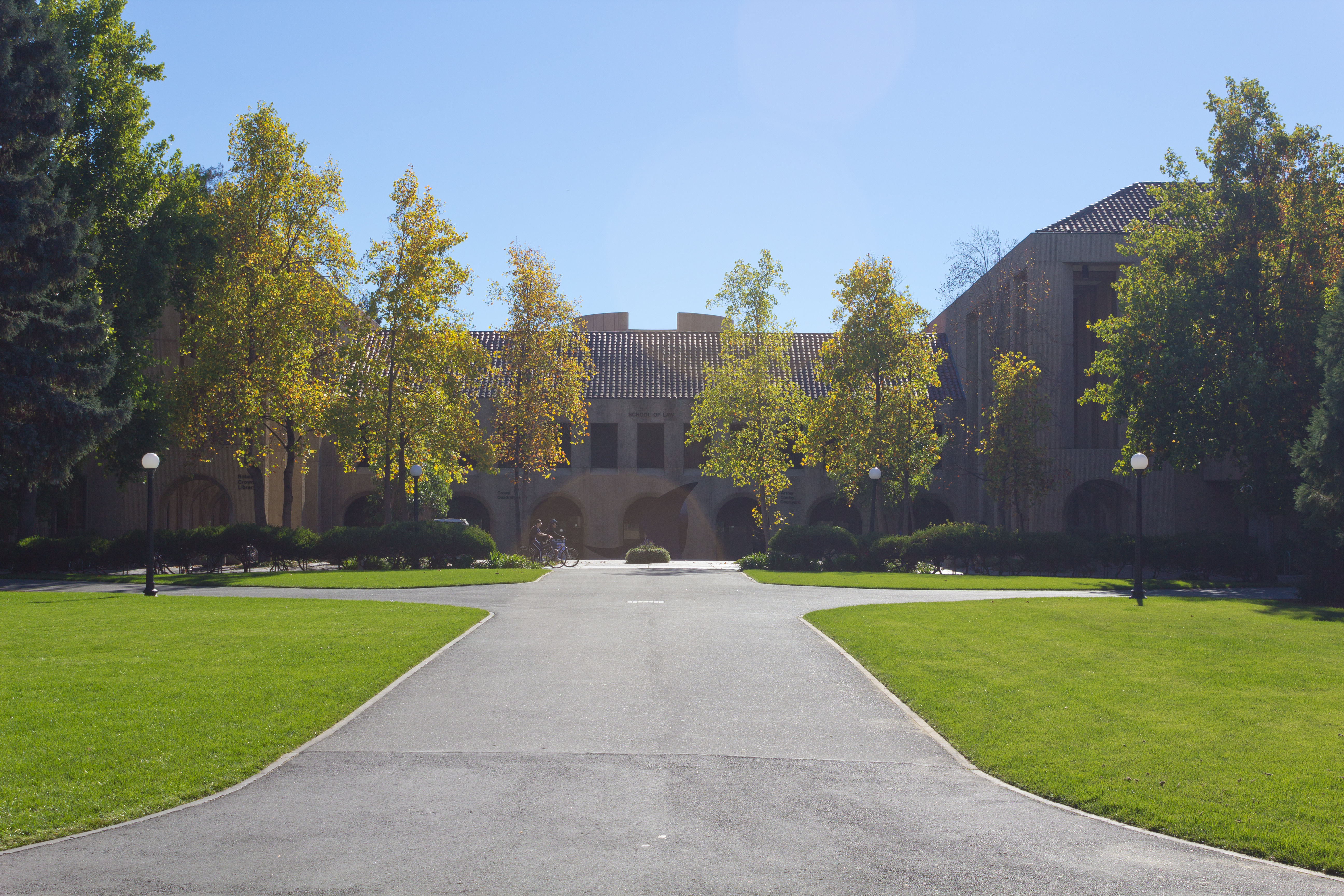 Stanford Law School, Stanford University.